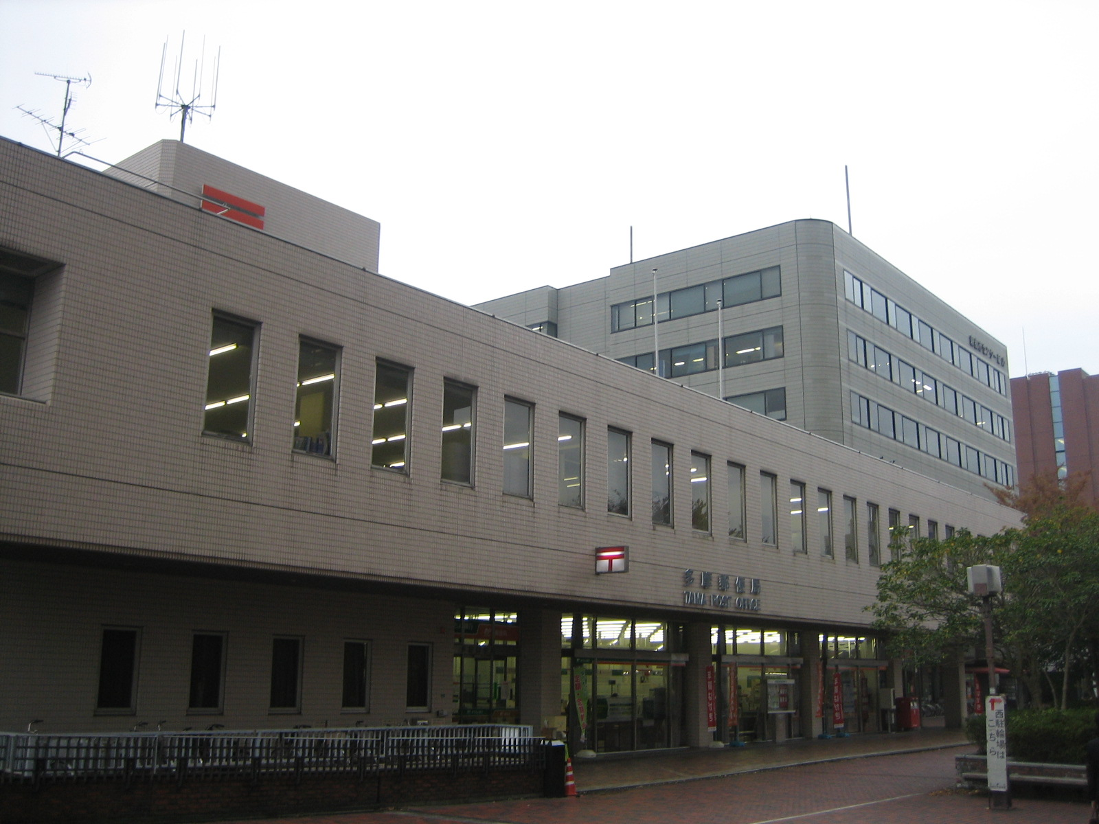 Tama post office in Tokyo, Japan